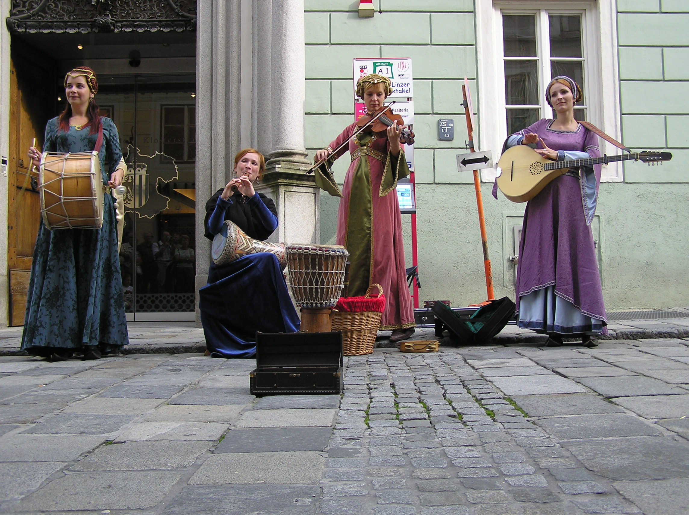 Psalteria, female quartet from the Czech Republic, plays medieval music at the Pflasterspektakel in Linz, Austria